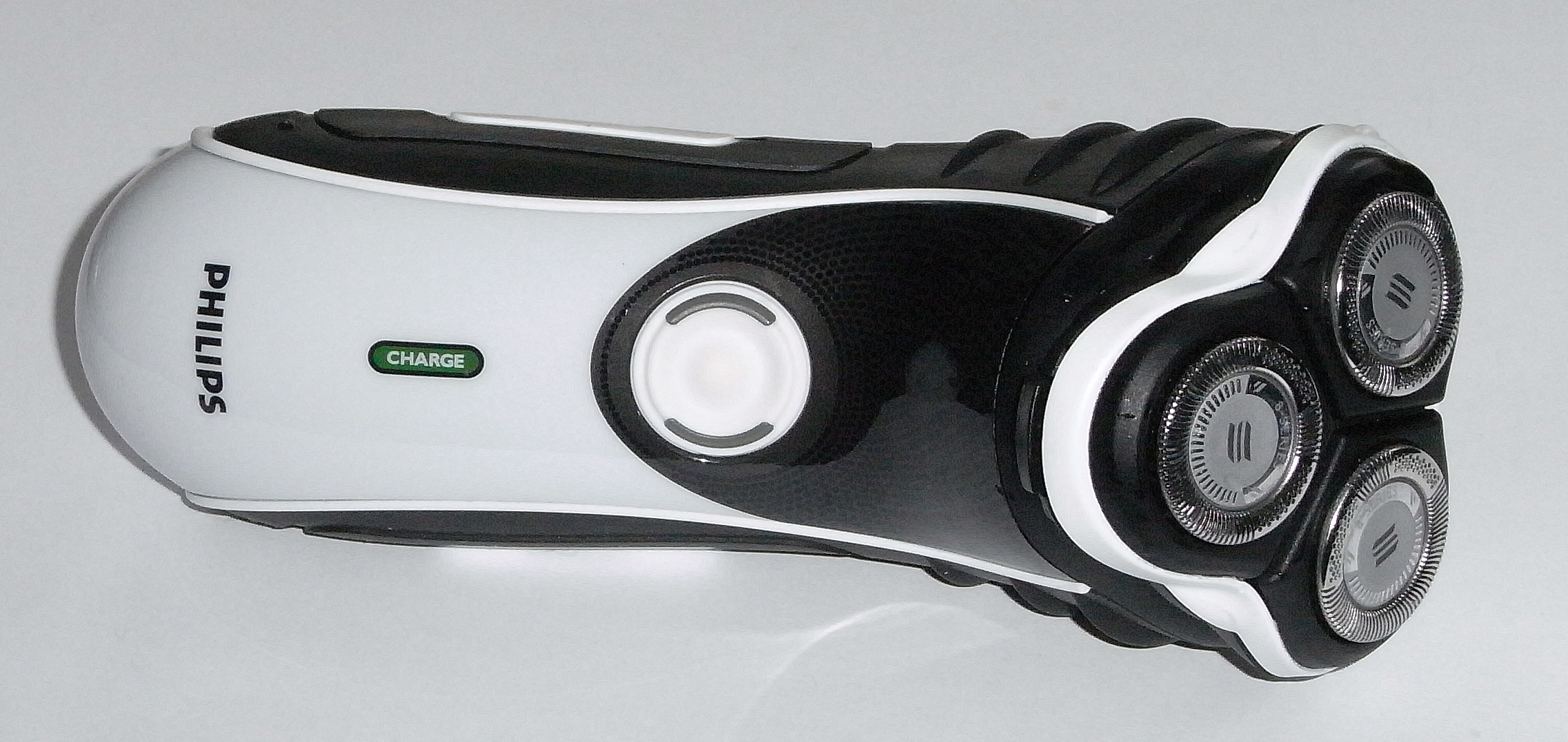 Philips 7300 Serie